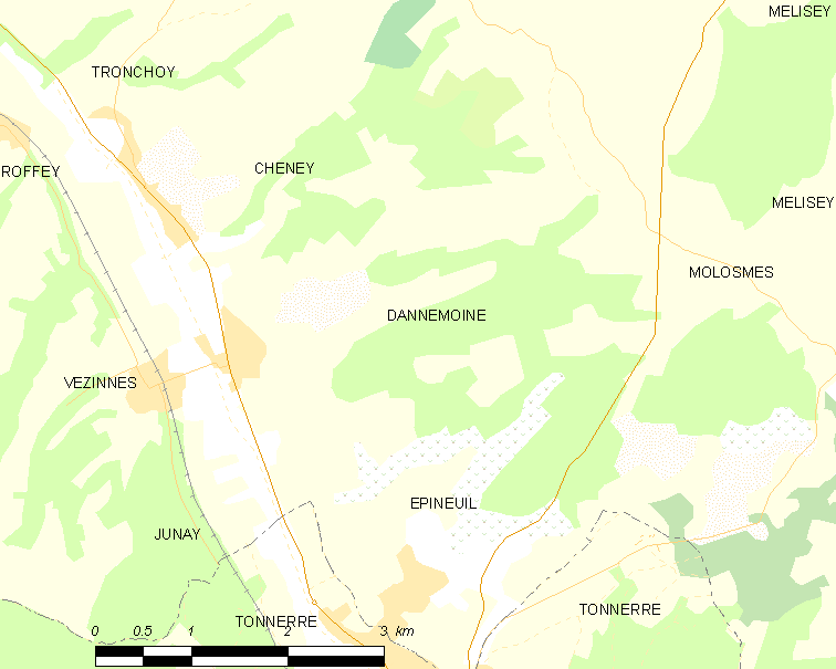 Map of French municipality Dannemoine